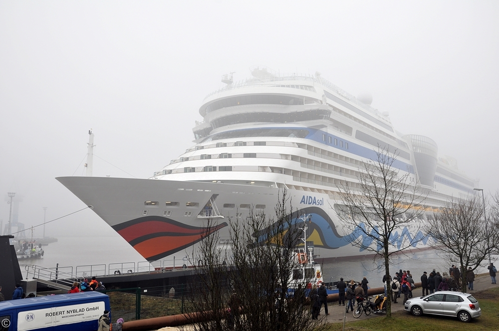 Undocking of the cruise ship AIDAsol